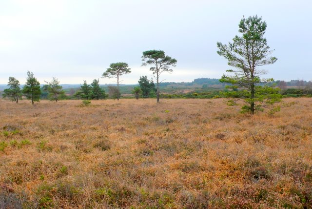 Holt Heath The bracken on this, one of the few remaining pieces of genuine Dorset heathland, turns golden brown in winter as it dies off and the only greenery to be seen are the evergreen trees and the gorse (furze) bushes which were the original source of firewood for the poor commoners who lived on the heath for many hundreds of years up until the end of the 19thC.